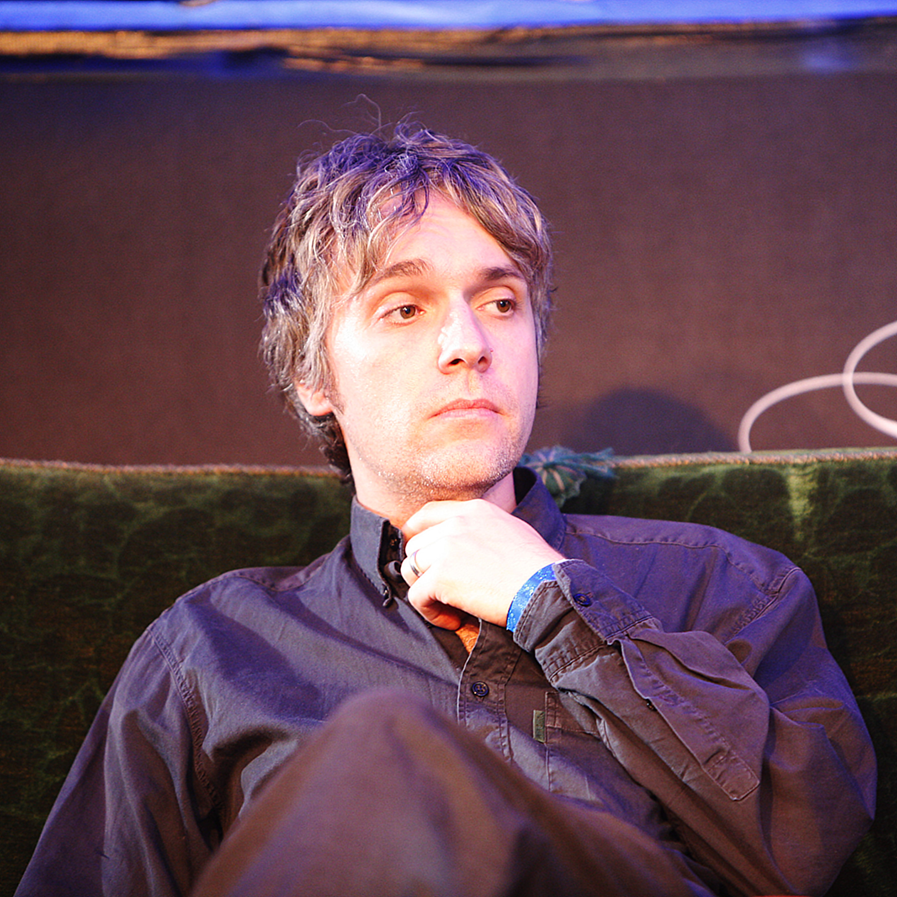 Simon Tong at the Eurockéennes of 2007